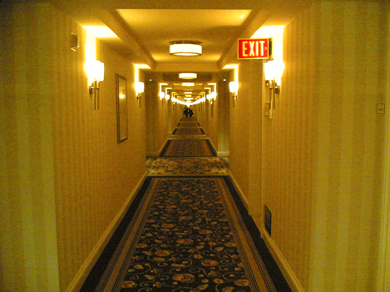 Bellagio, Las Vegas. 26th floor.